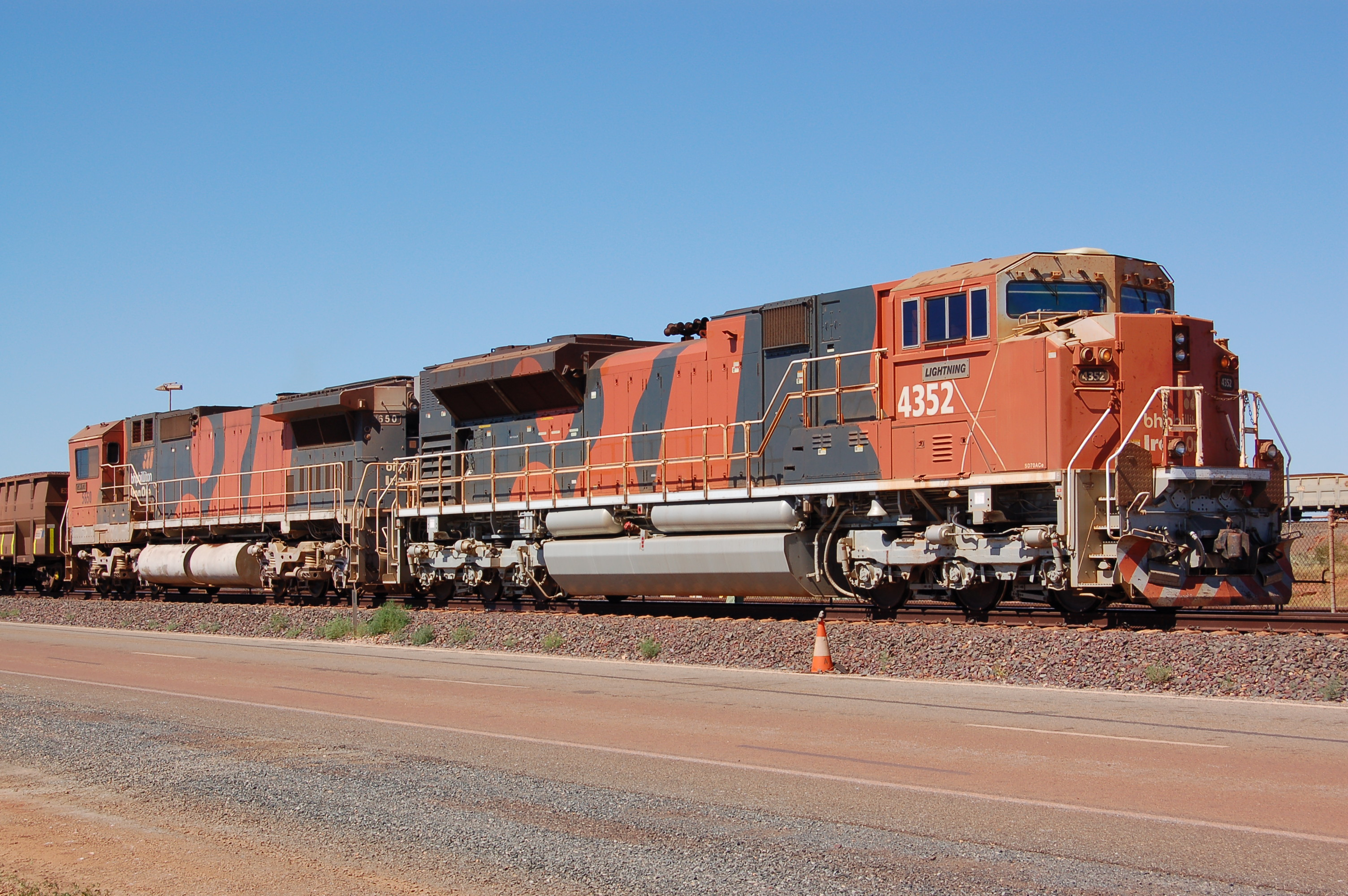 BHP Billiton Iron Ore GE CM40-8M no. 5650 Yawata (left) and EMD SD70ACe no. 4352 Lightning (right) at the head of a loaded train at Boodarie, near Port Hedland, awaiting clearance to continue the short distance to Finucane Island, the northwestern terminus of the Goldsworthy railway, Western Australia. A Fortescue Metals Group train on the Fortescue railway is just visible in the background at right.